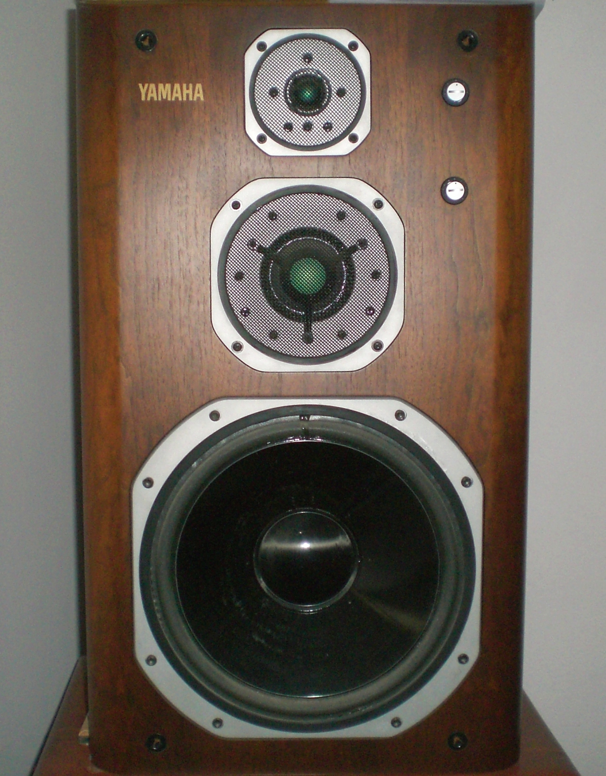 Yamaha NS-2000 Speaker, front view.